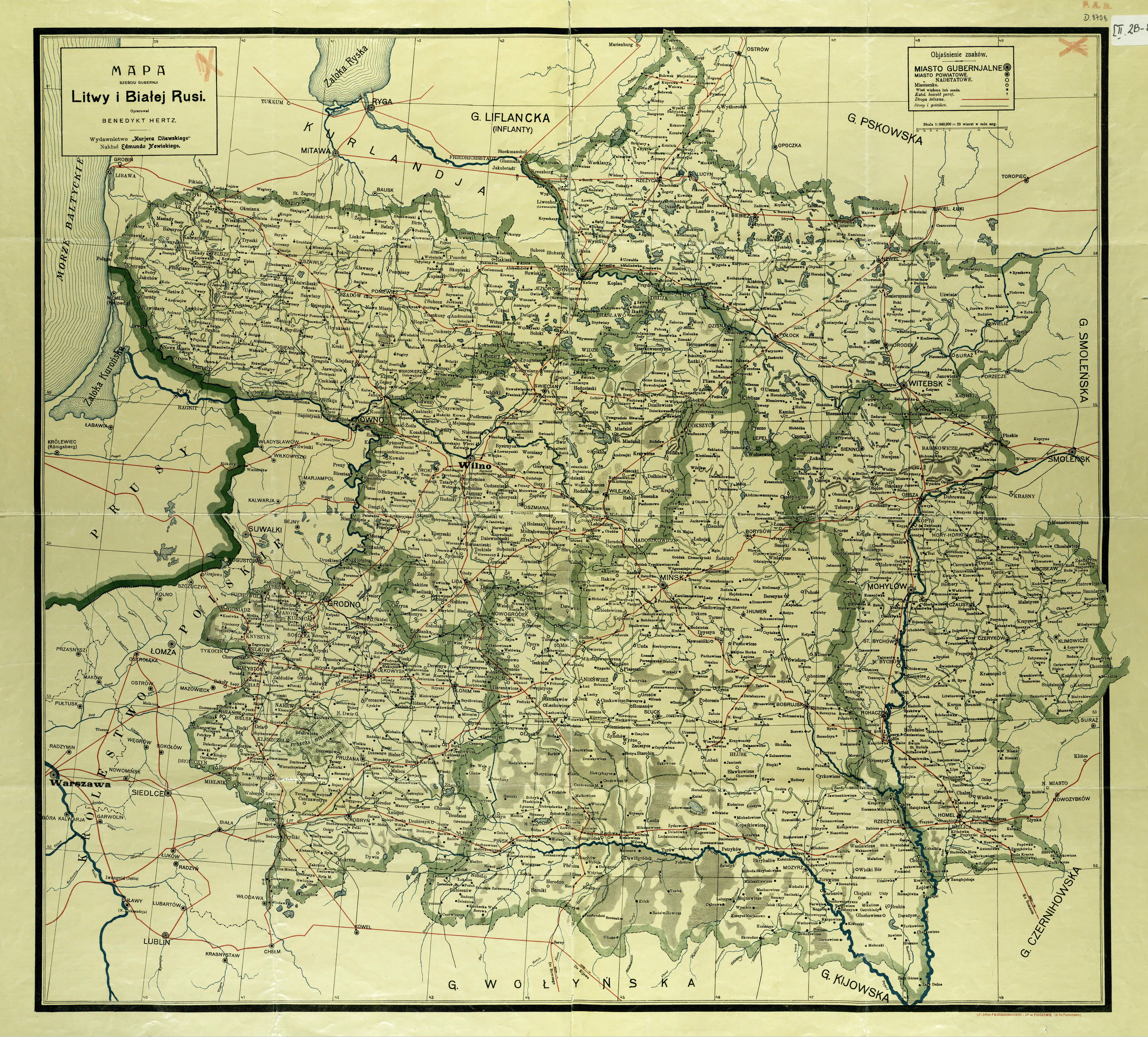 map of the northwestern governorates of the Russian Empire - by Benedykt Hertz, newspaper "Kurjer Litewski"